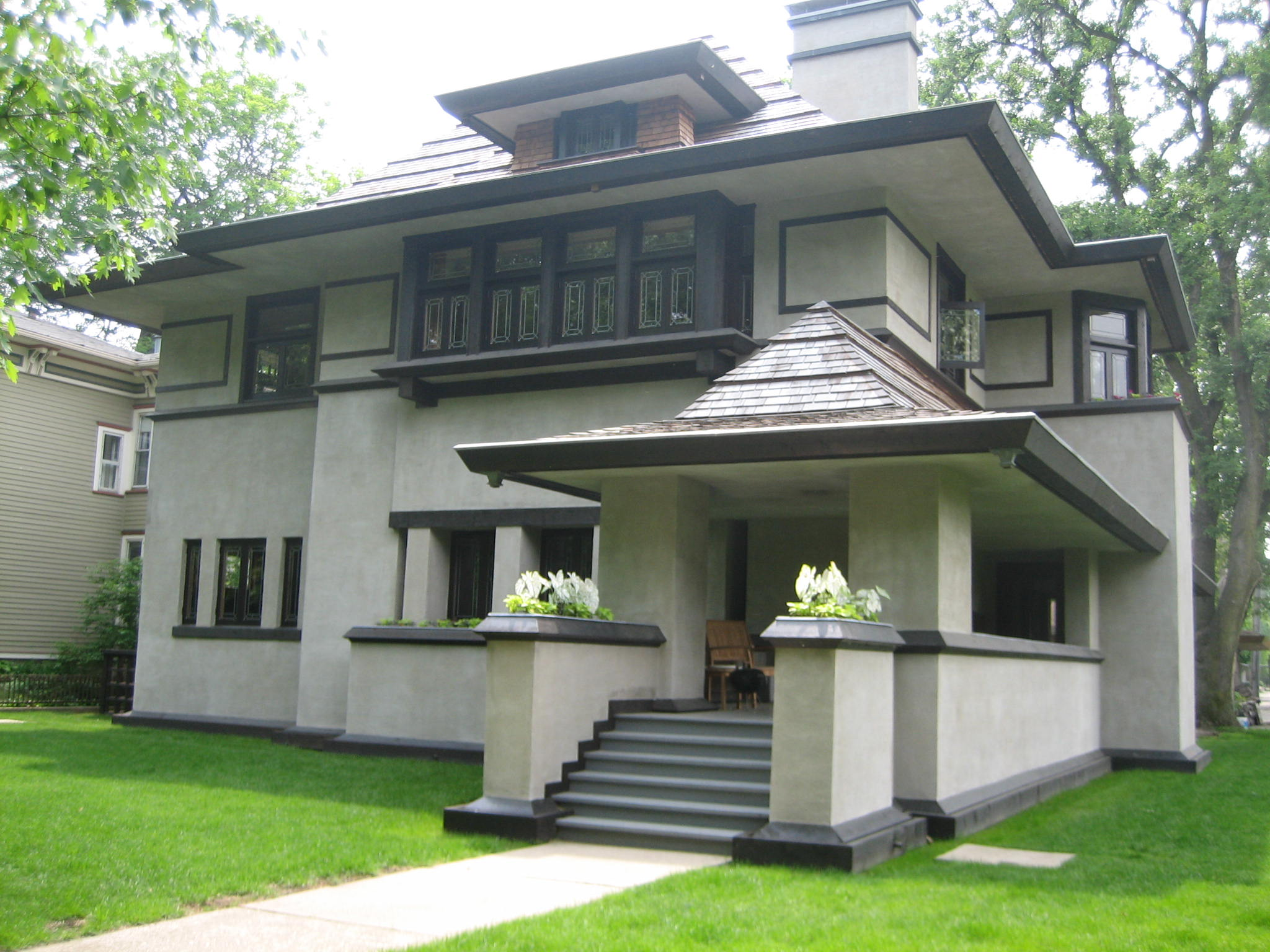 Edward R. Hills House (Hills-DeCaro House), complete remodel designed by Frank Lloyd Wright, 1906. Oak Park, Illinois, USA. Listed as a contributing property to the U.S. National Register of Historic Places listed Frank Lloyd Wright-Prairie School of Architecture Historic District as well as being designated a local Oak Park Landmark.